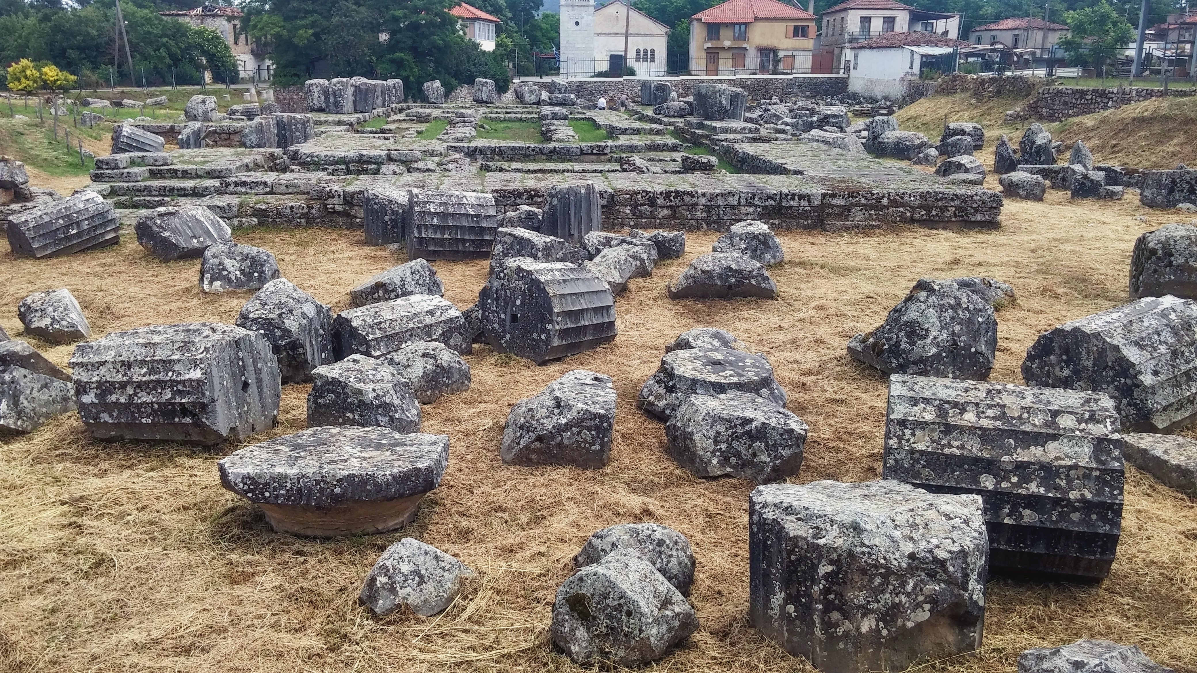 Archaeological site of the Temple of Athena Alea at Tegea (2017)